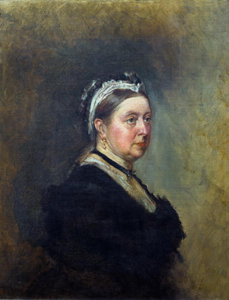 Queen Victoria